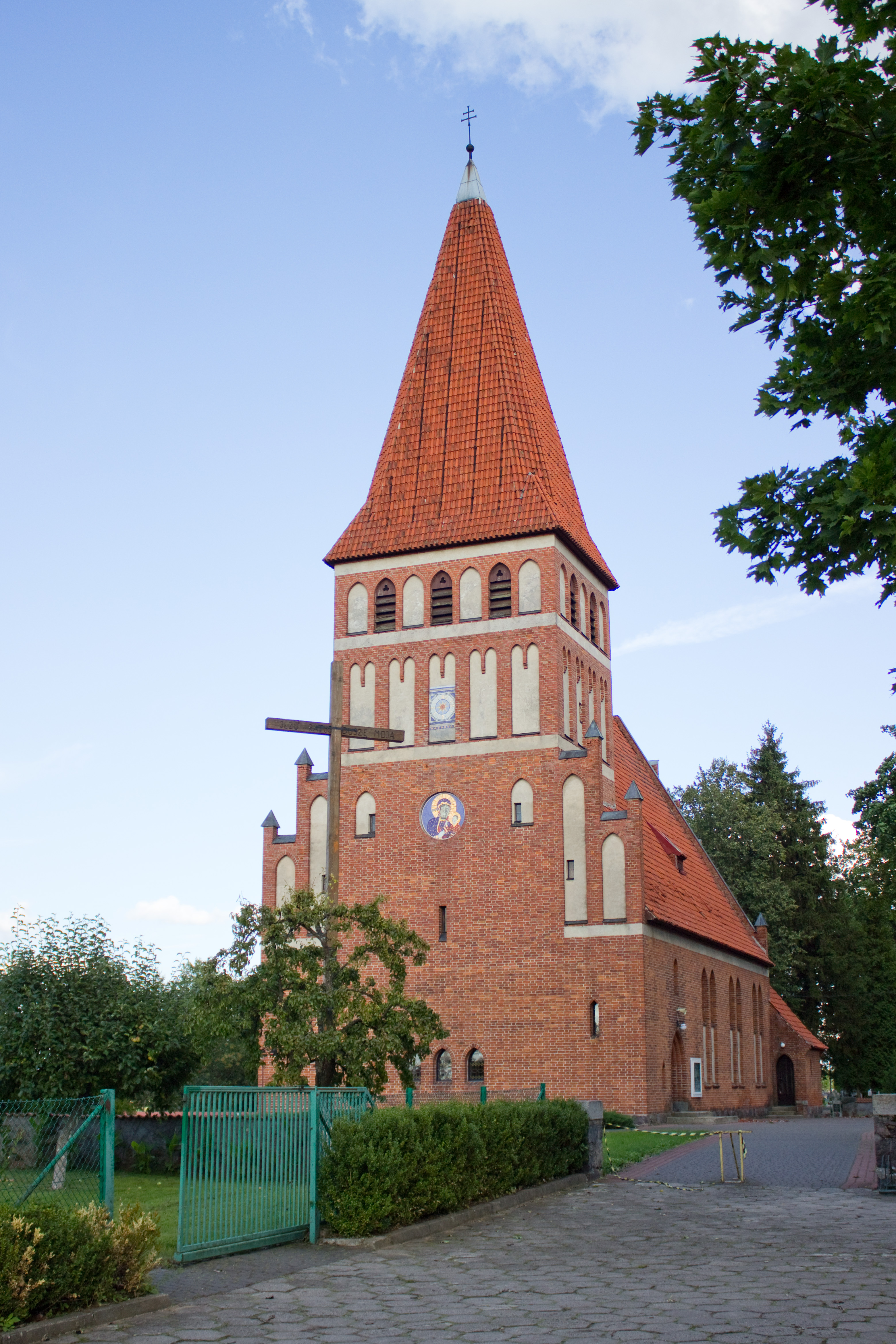 Church, Pisanica, gmina Kalinowo, powiat ełcki, Warmian-Masurian Voivodeship